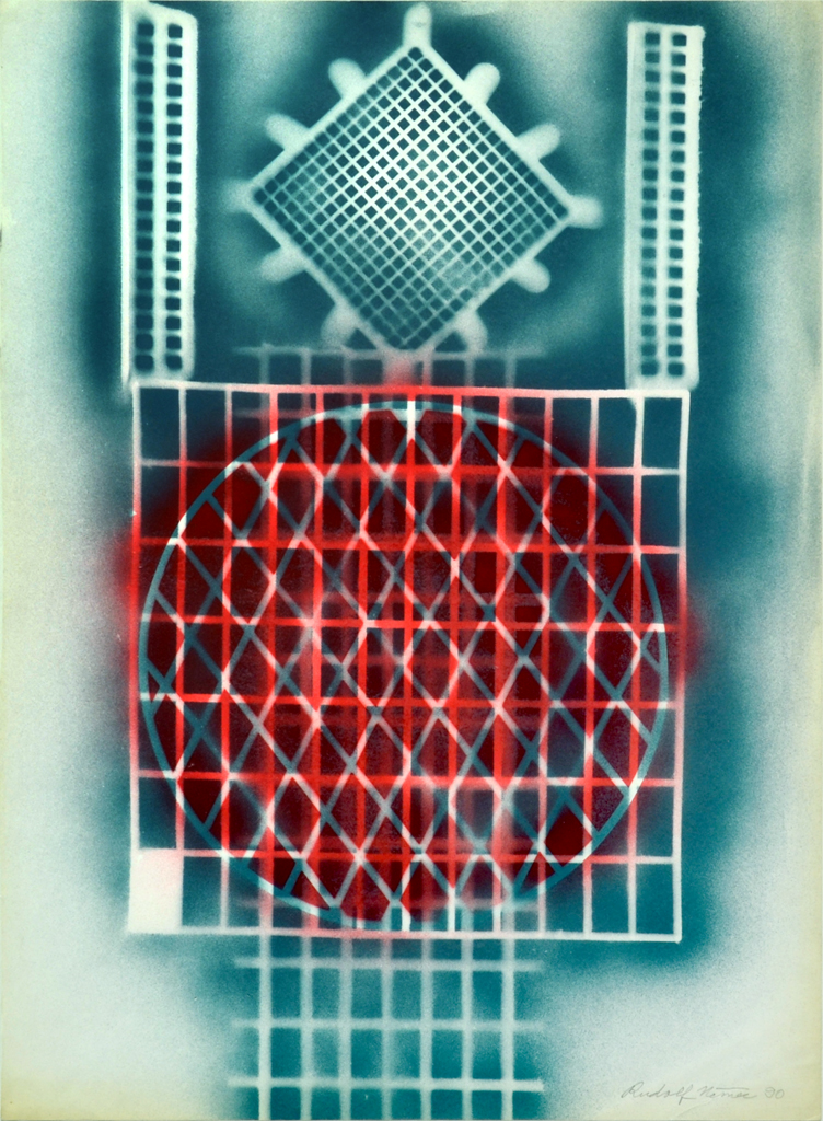 Rudolf Němec, No title (figure, 1990), spray-paint, paper